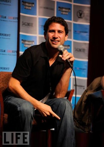 Picture of Seth Caplan